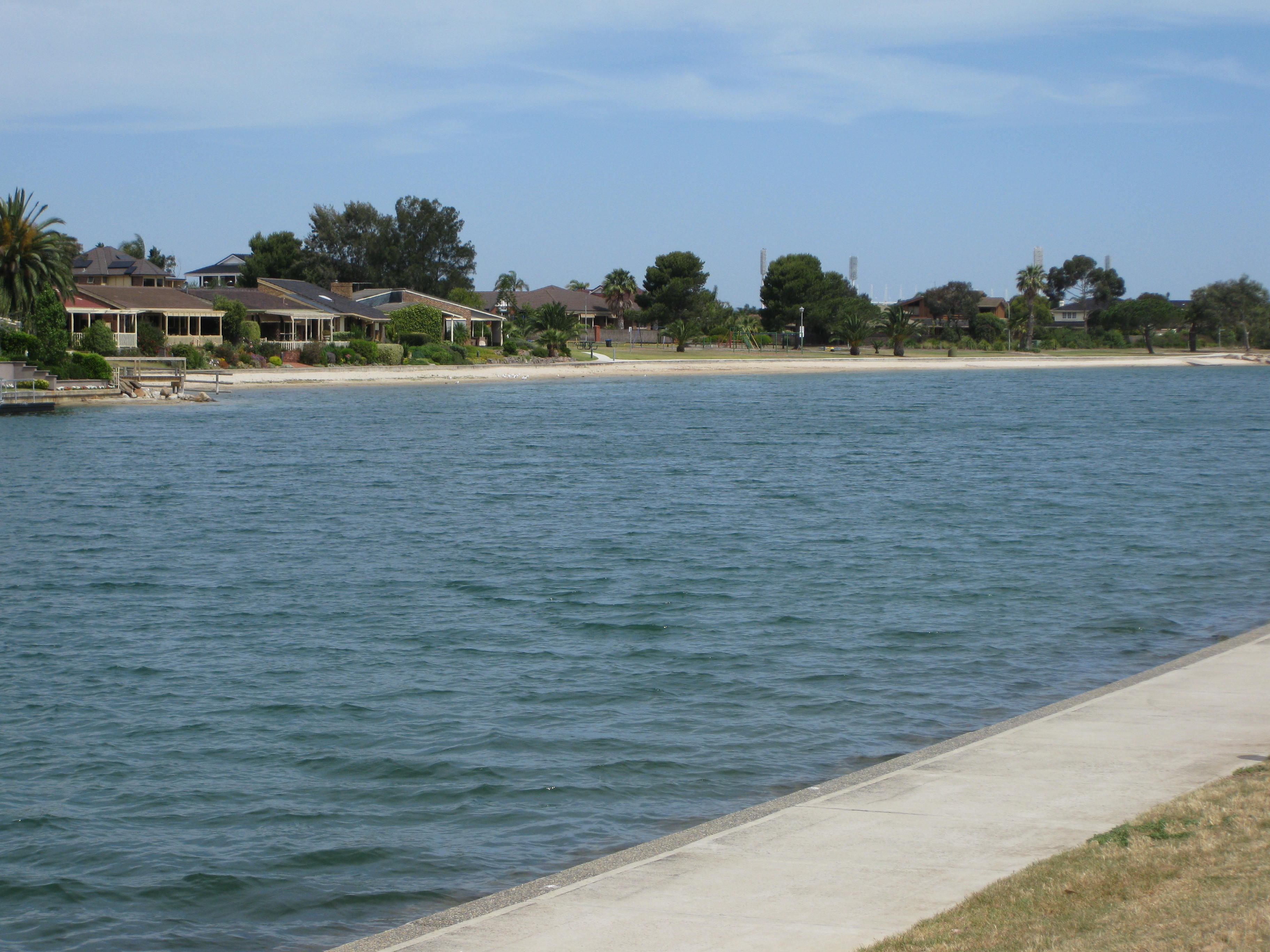 A view of the man made lake at West Lakes Shore